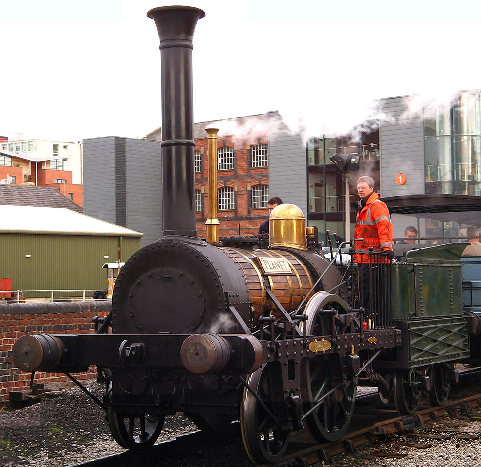 A working replica of Robert Stephenson's's 1830 locomotive Planet which ran on the Liverpool and Manchester Railway. Seen here at the Manchester Science Museum.